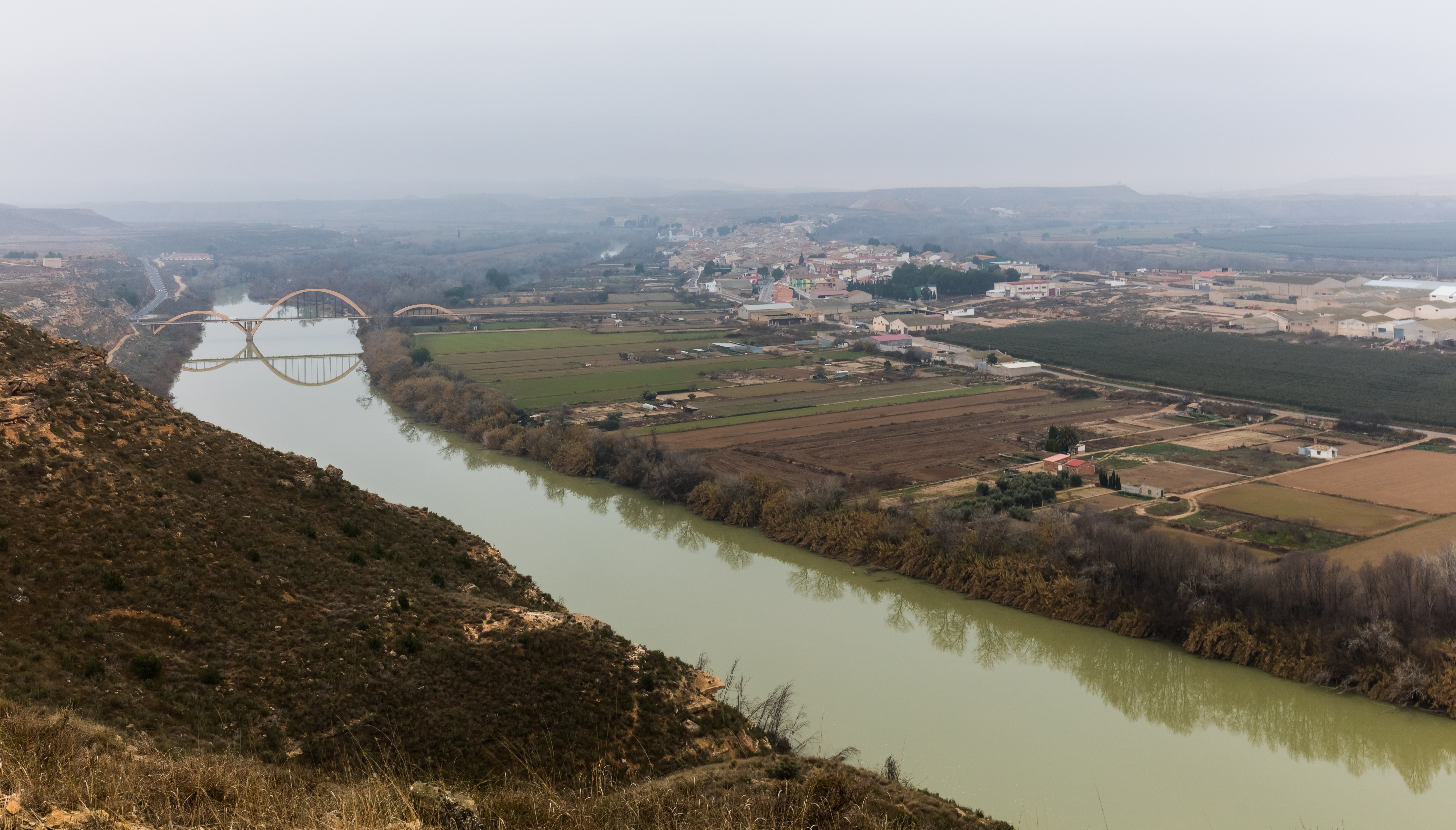 Sástago, Zaragoza, Spain